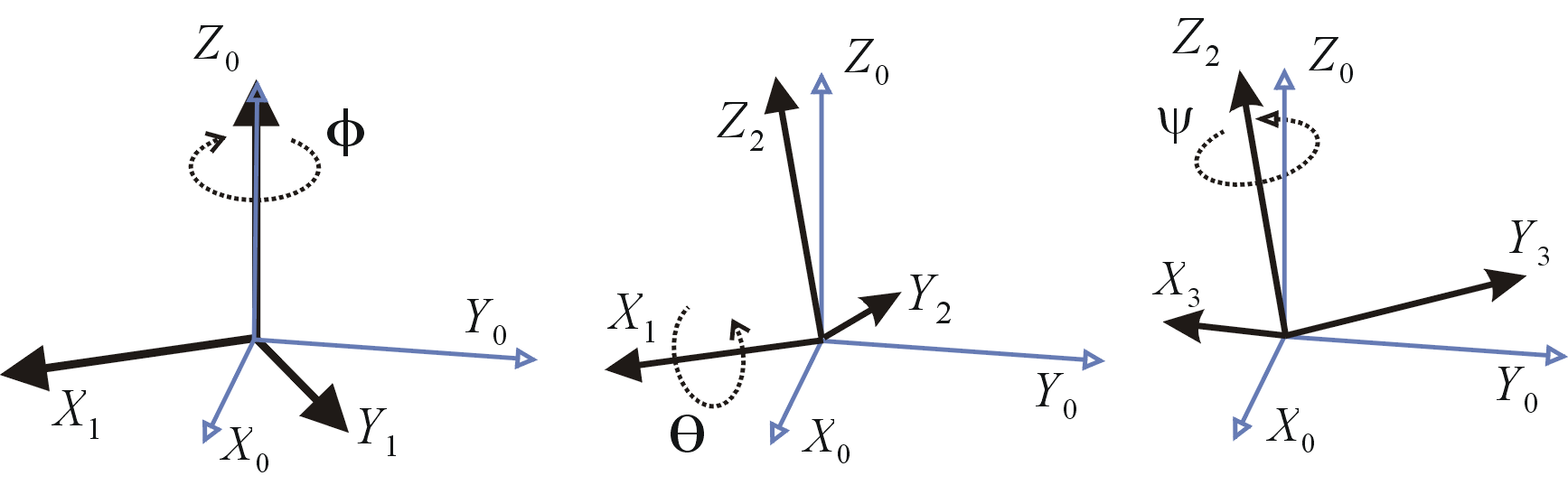 Euler Angles, general convention